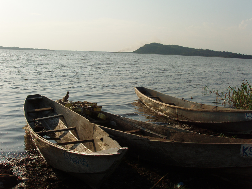 Fishing boats on Lake Kyoga, Uganda